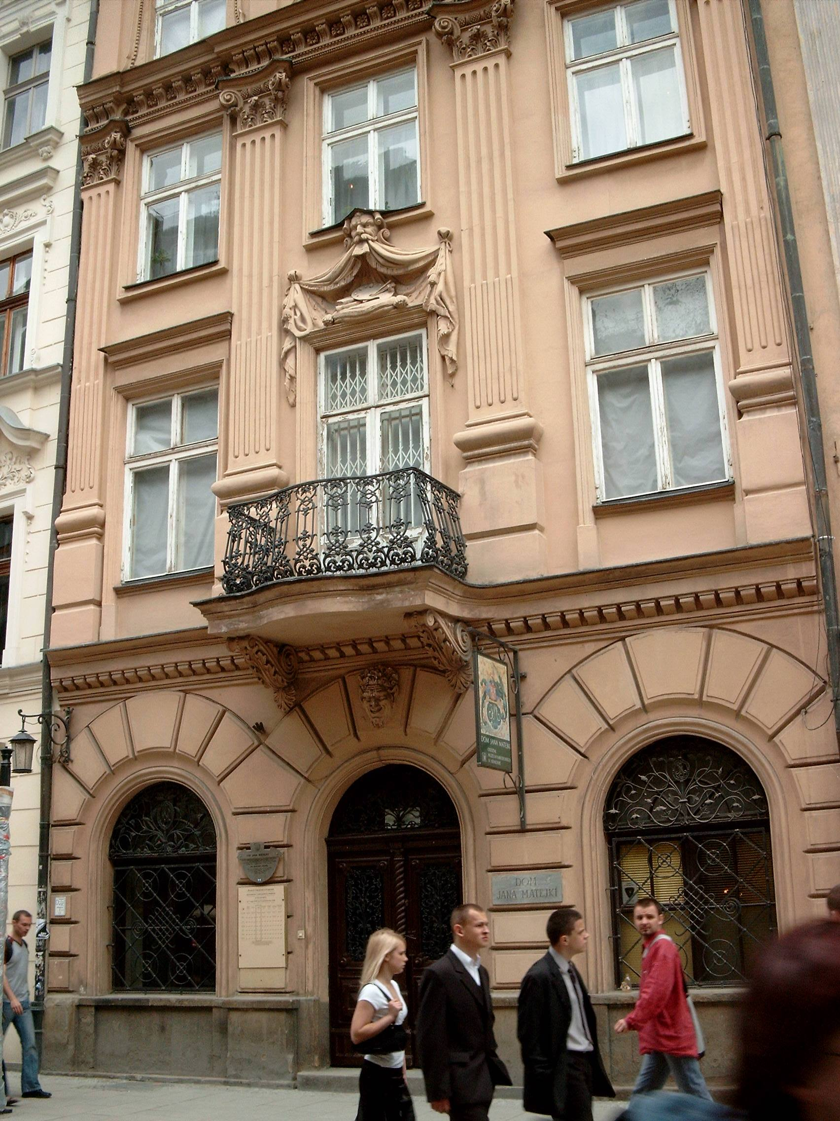 Jan Matejko house, Kraków, Floriańska street